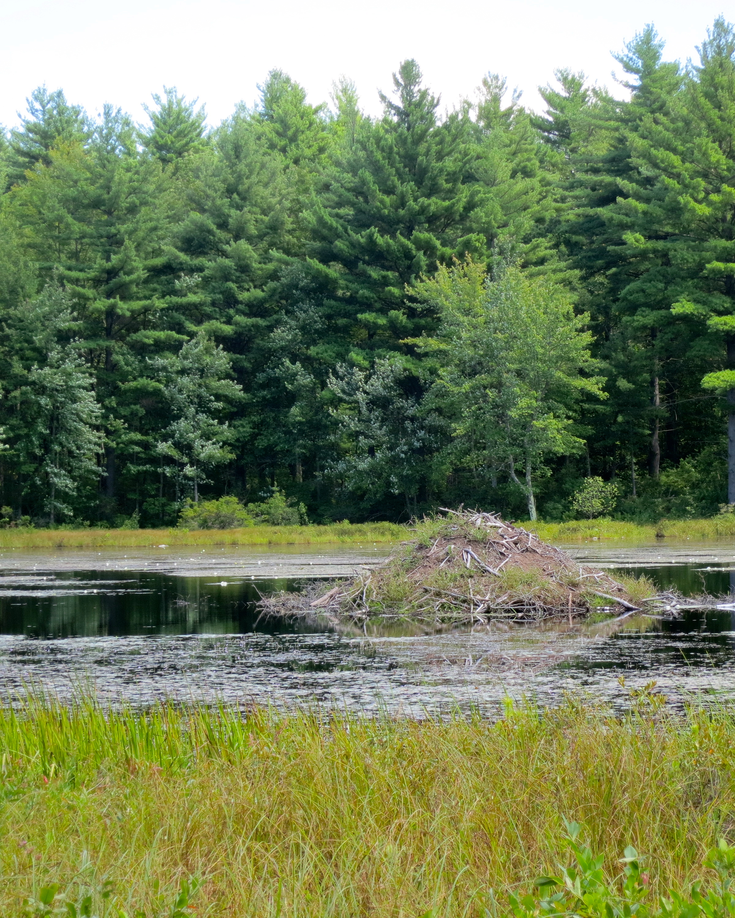 Beaver hut in Ruggle's Pond